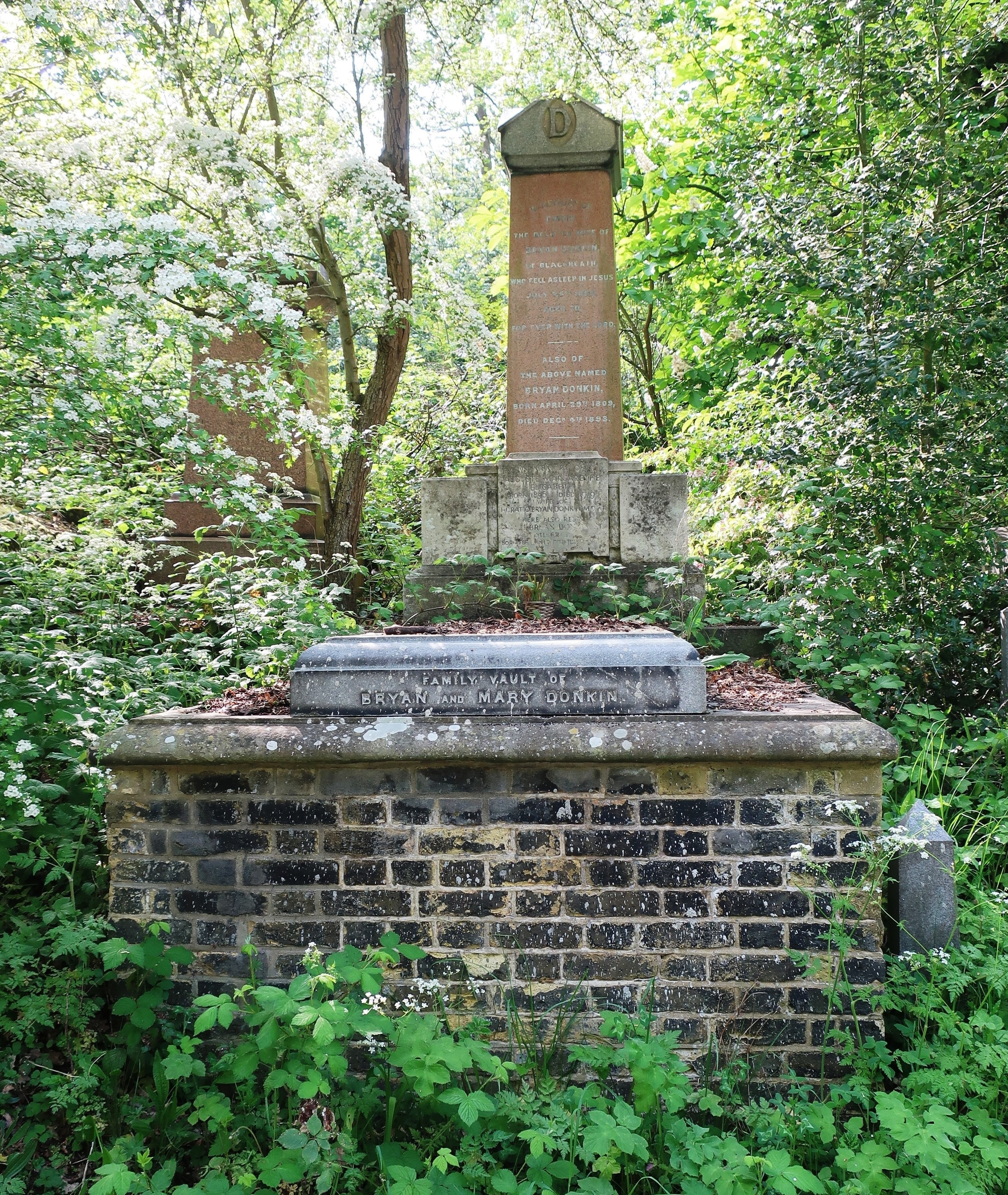 Family vault of Bryan Donkin (1768–1855), inventor and engineer, his wife Mary nee Brame (d. 1858), and other family members, in Nunhead Cemetery, London SE15